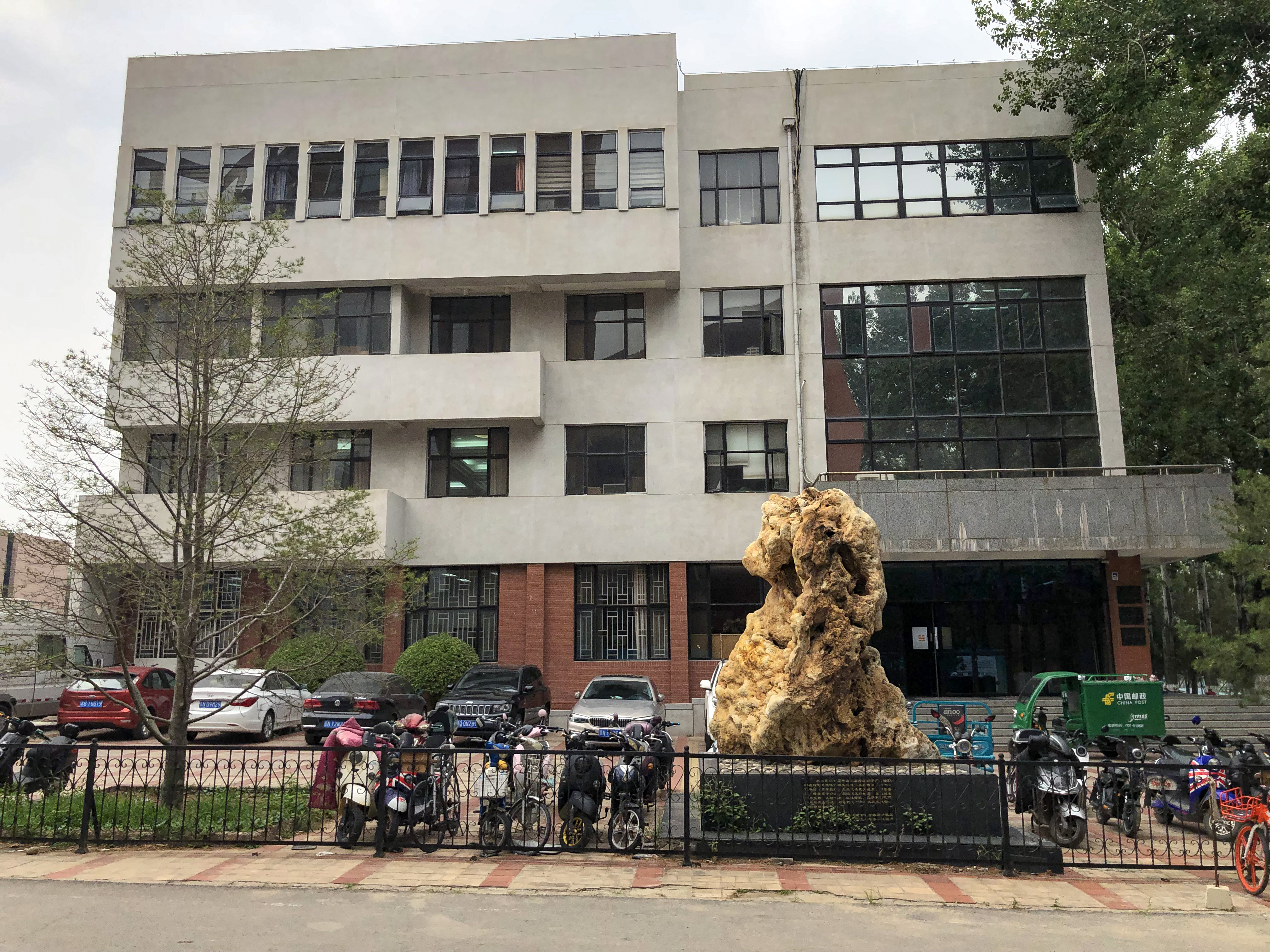 This is the current headquarters of the department of civil engineering.